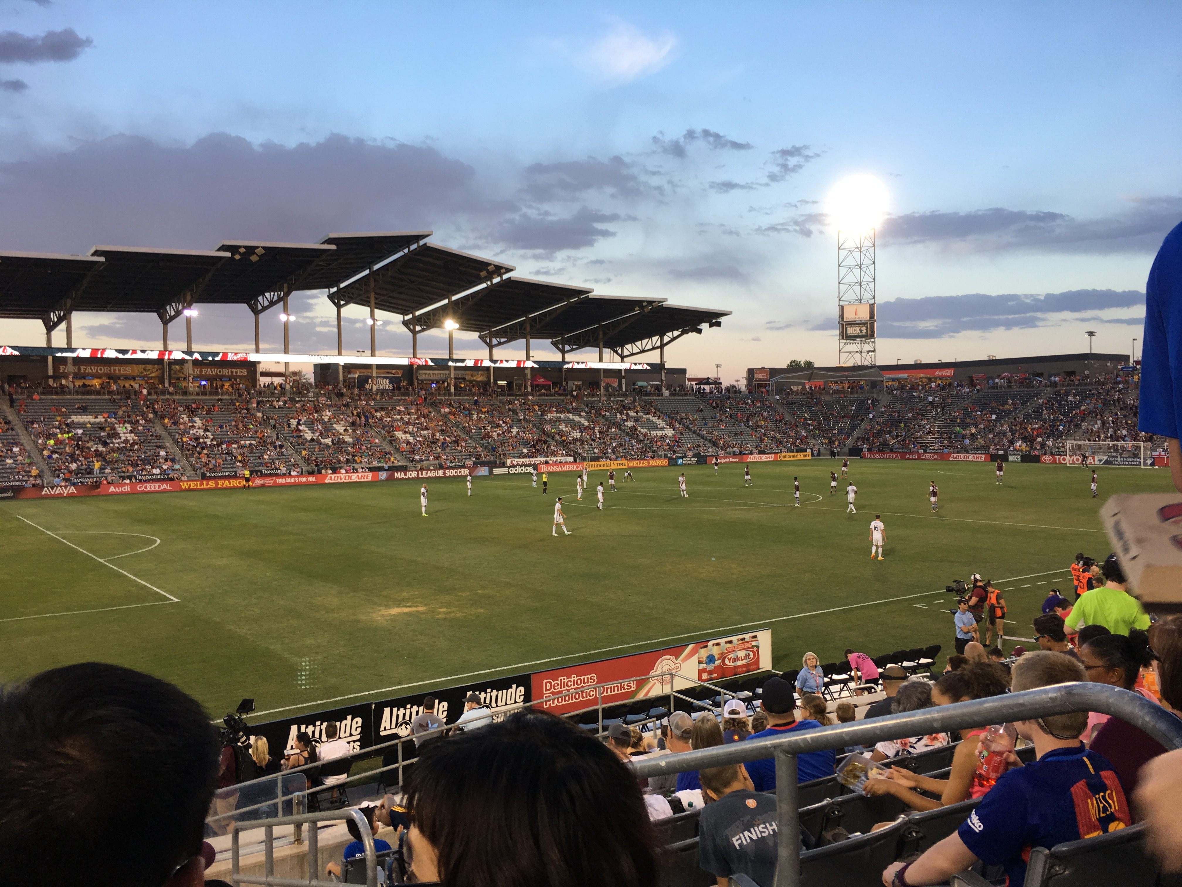 Picture of Dick's Sporting Goods Park taken June 21, 2017, during a game between Colorado Rapids and LA Galaxy